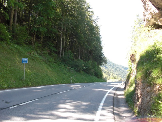 Summit of the "Col du Mont d'Orzeires" with sign "Col du Mont d'Orzeires Alt. 1061 m"